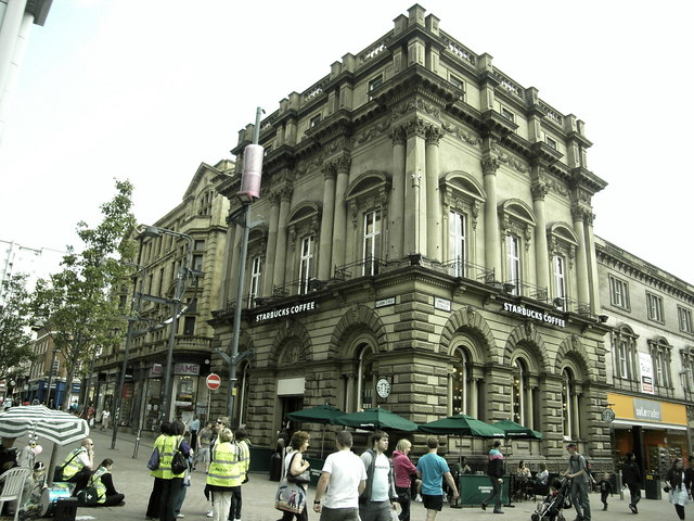 The Leeds & Yorkshire Fire Assurance Co. Commercial Street Opened in 1855 was one of the first purpose built offices to be built in the town,now a coffee shop